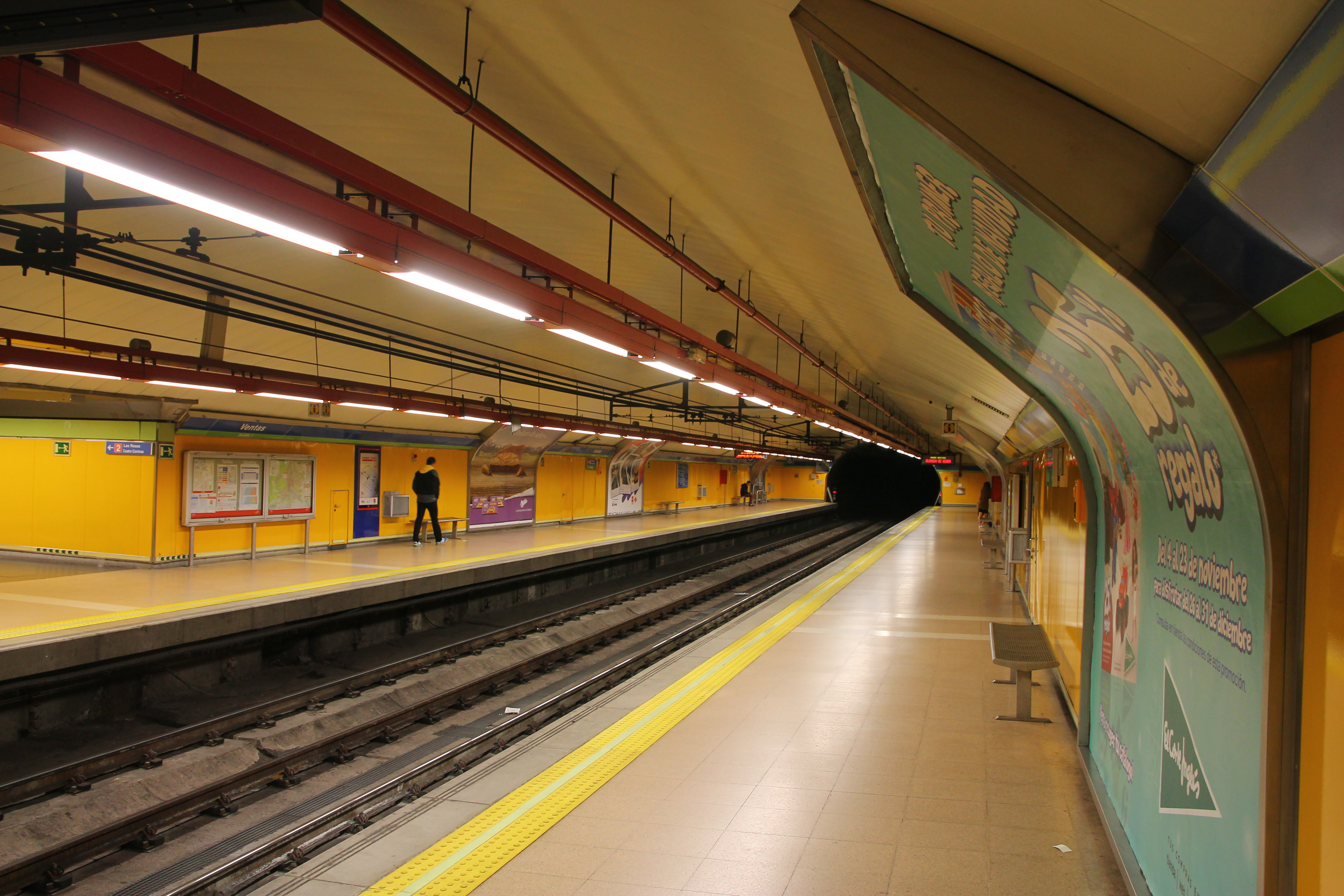 Estación de Ventas